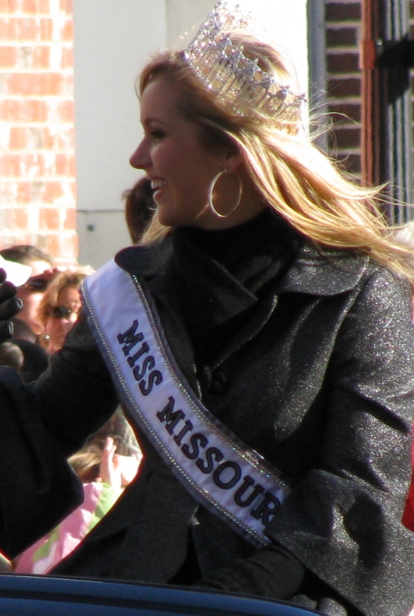 Candice Crawford, Miss Missouri USA 2008, in a parade in Dallas, Texas